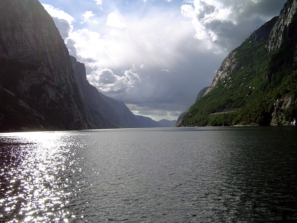 The Lysefjord from Lysebotn Image by ChrisO